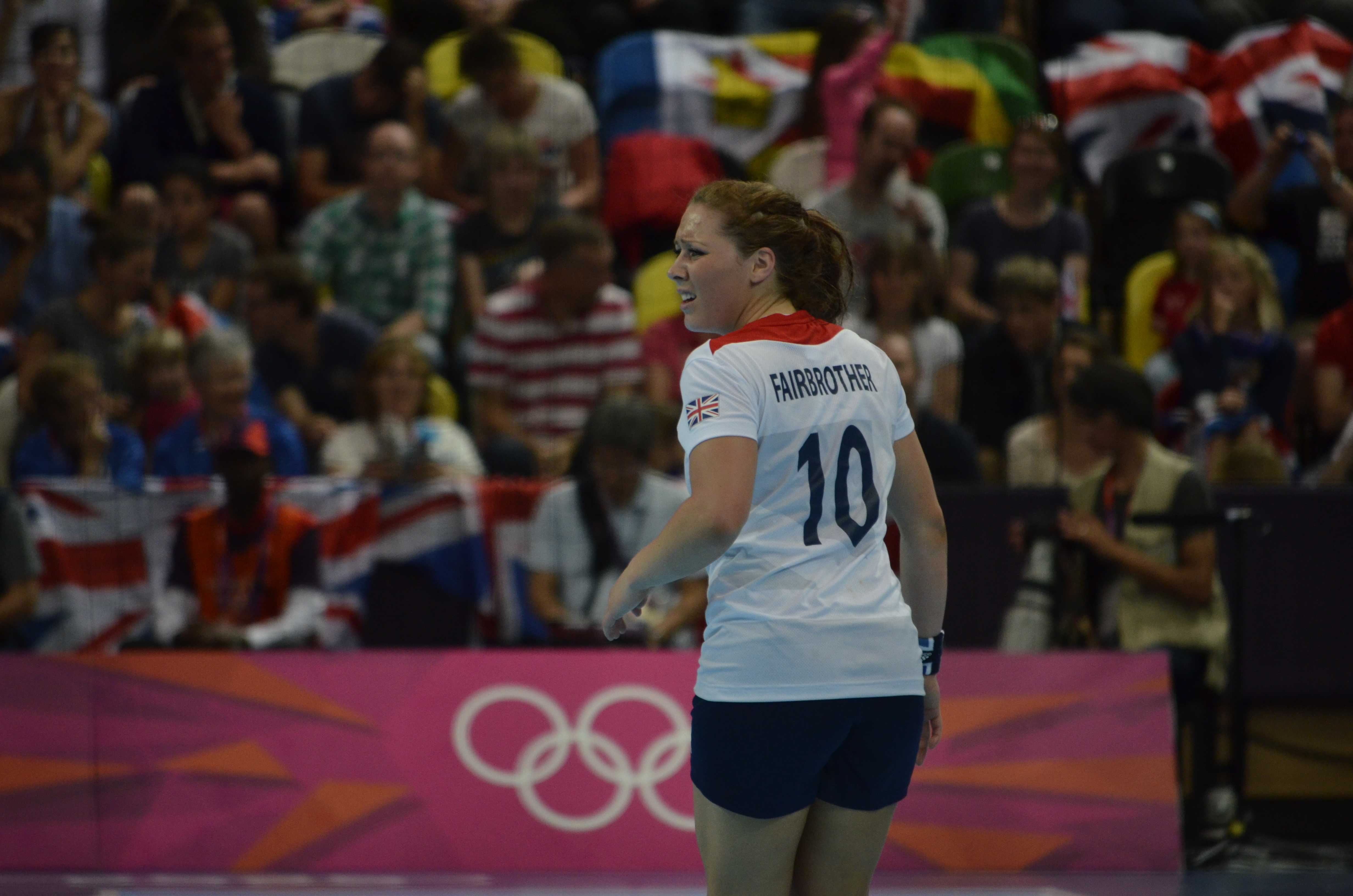 Kelsi Fairbrother, a handball player from the UK team, at the 2012 Summer Olympics